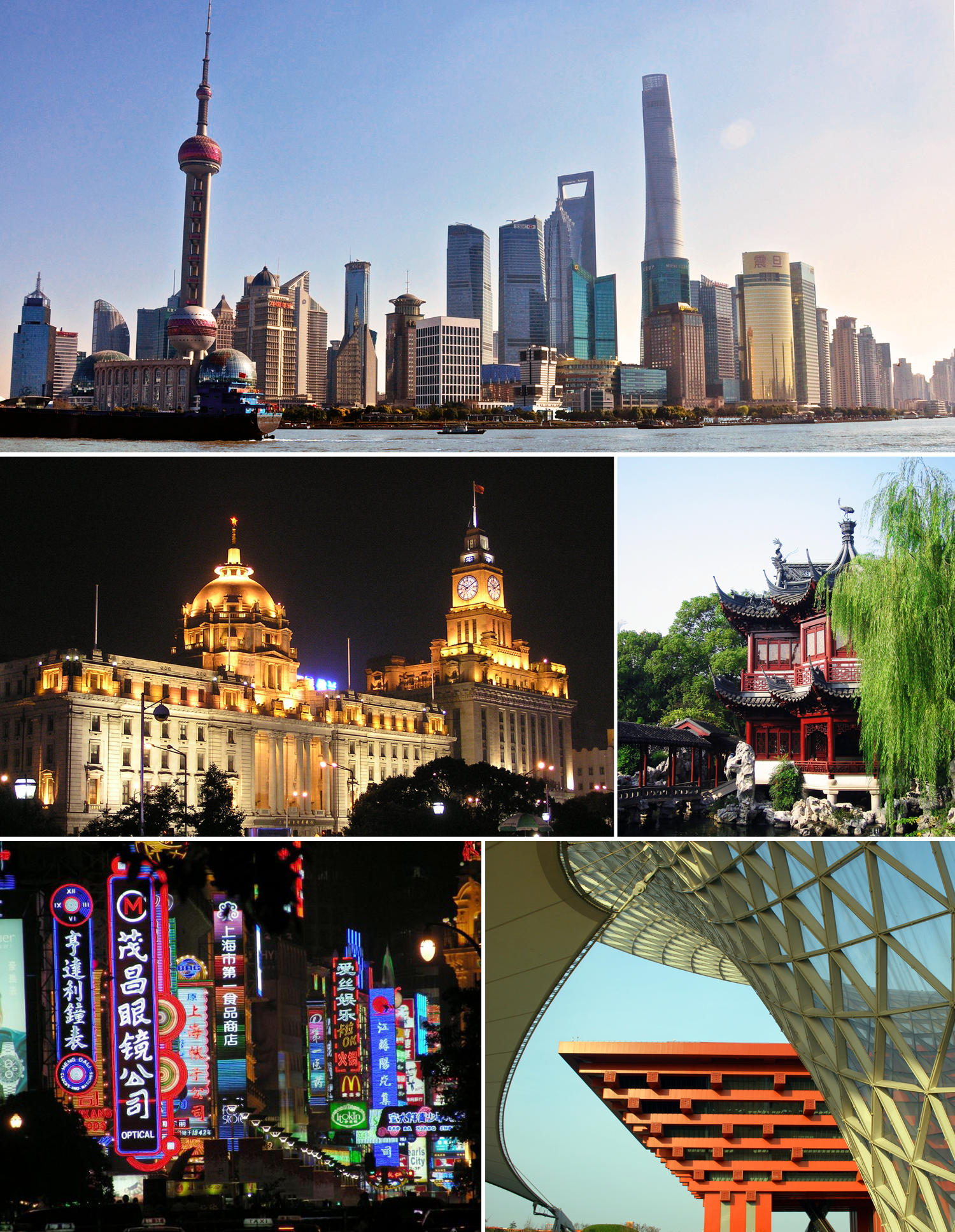 Montage of various Shanghai images